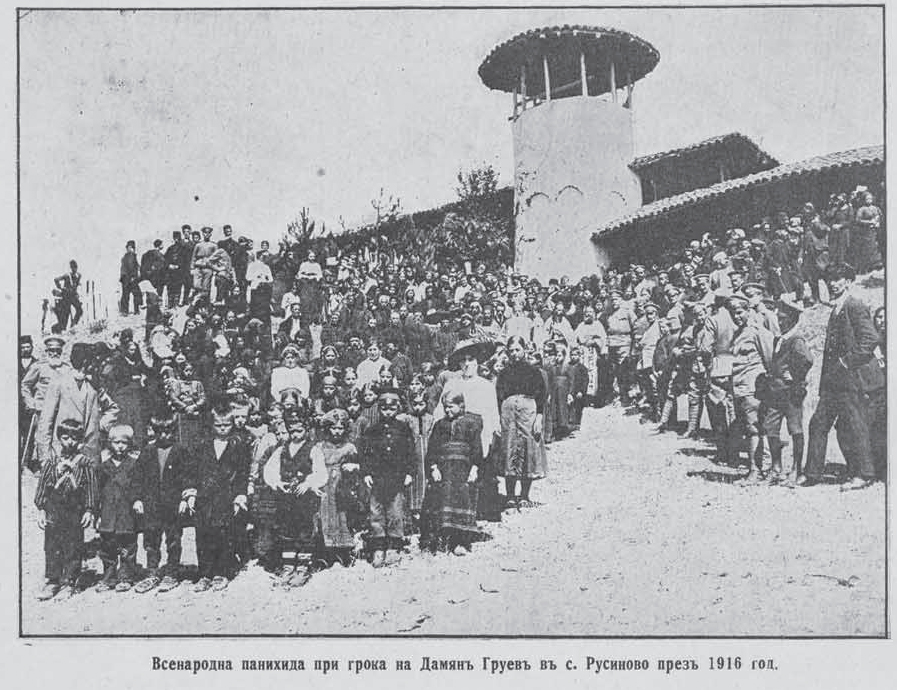 Village of Rusinovo, 1916 praise memory to Dame Gruev